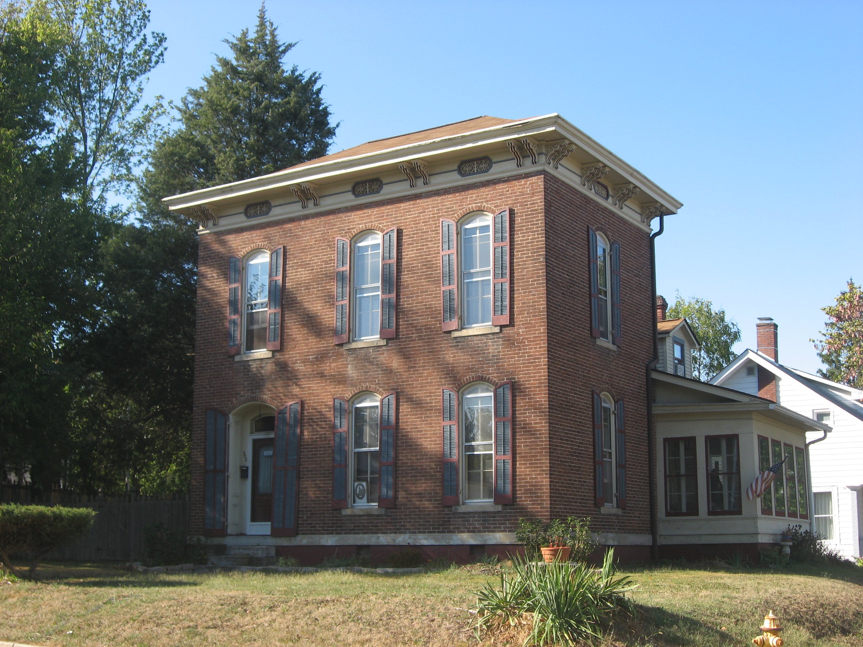 Front of the August Zeppenfeld House, located at 300 W. Jefferson Street (State Road 44) in Franklin, Indiana, United States. Built in 1872, it is listed on the National Register of Historic Places.